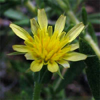 Silver Puffs, Circle X Ranch: Mishe Mokwa trail, chaparral, 4-10-04